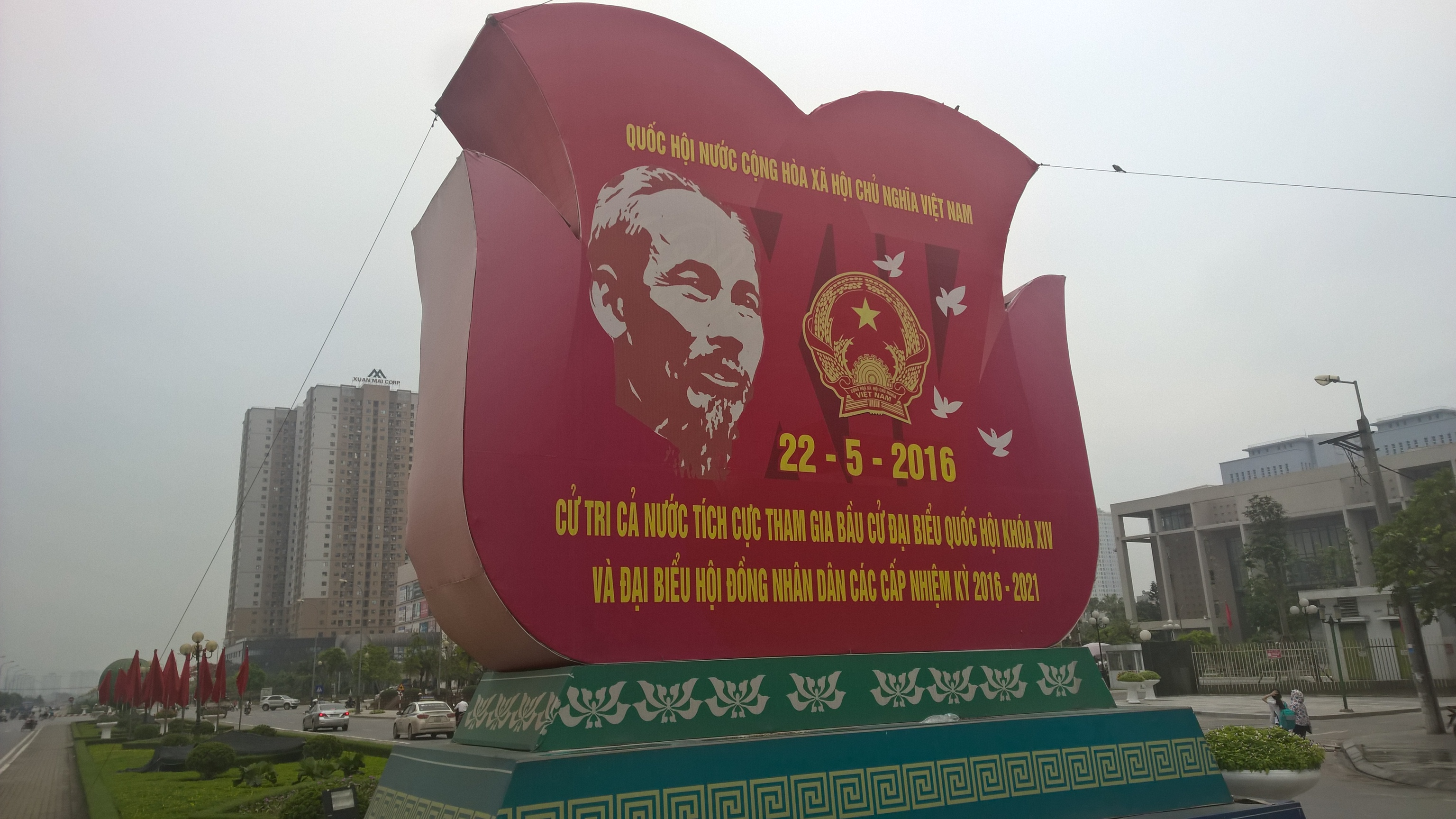 Ho Chi Minh on some Propaganda for the 14th meeting of the Politburo of the Communist Party of Vietnam in Hà Đông.